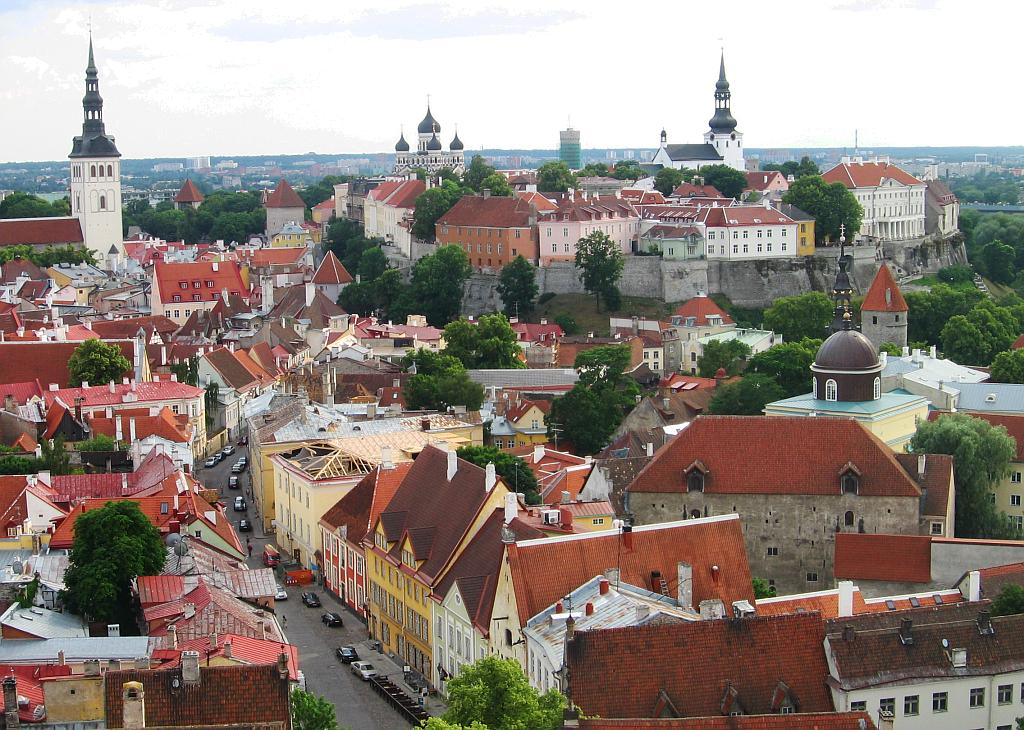 Old Town, Tallinn, Estonia